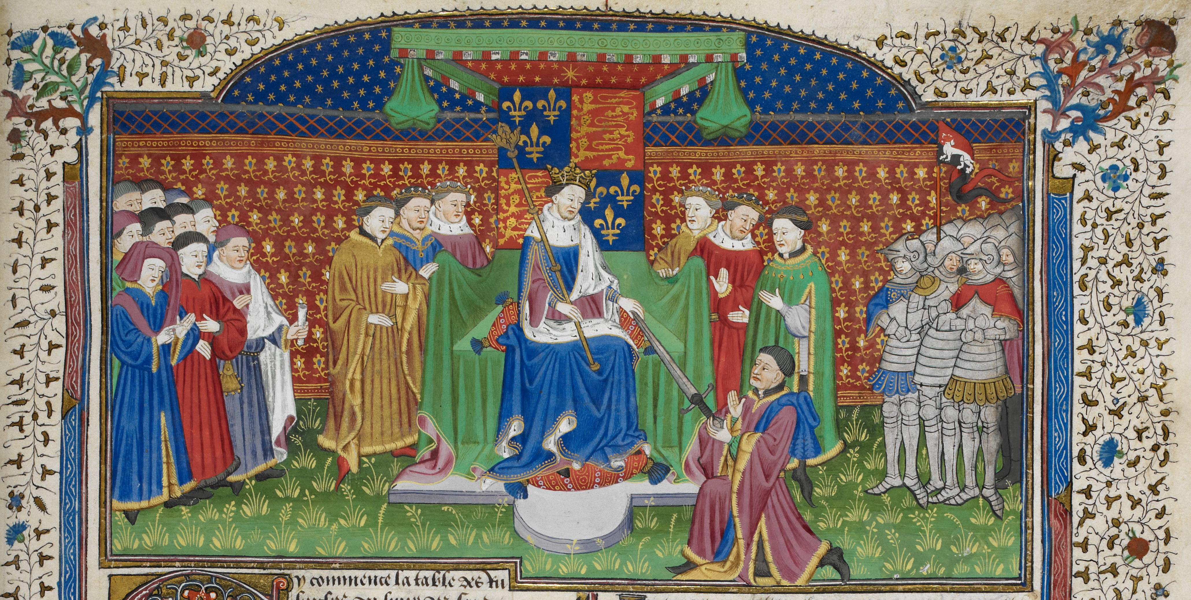 Henry VI of England enthroned giving the earl of Shrewsbury (John Talbot) the sword as constable of France. (British Library, Royal 15 E VI f. 405)